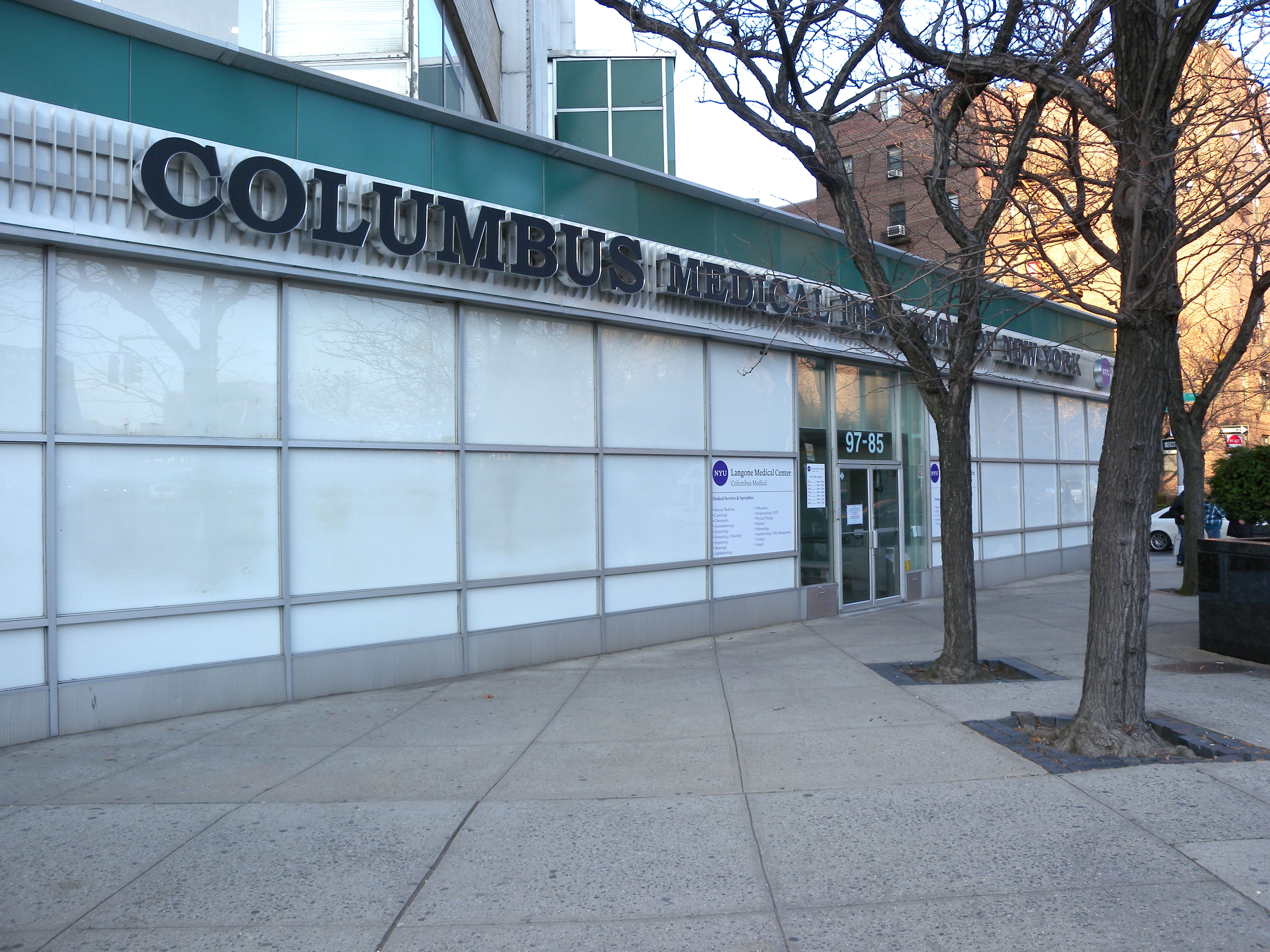 Looking northeast from Queens Boulevard at Langone Medical office, NYU Columbus, on a sunny afternoon.